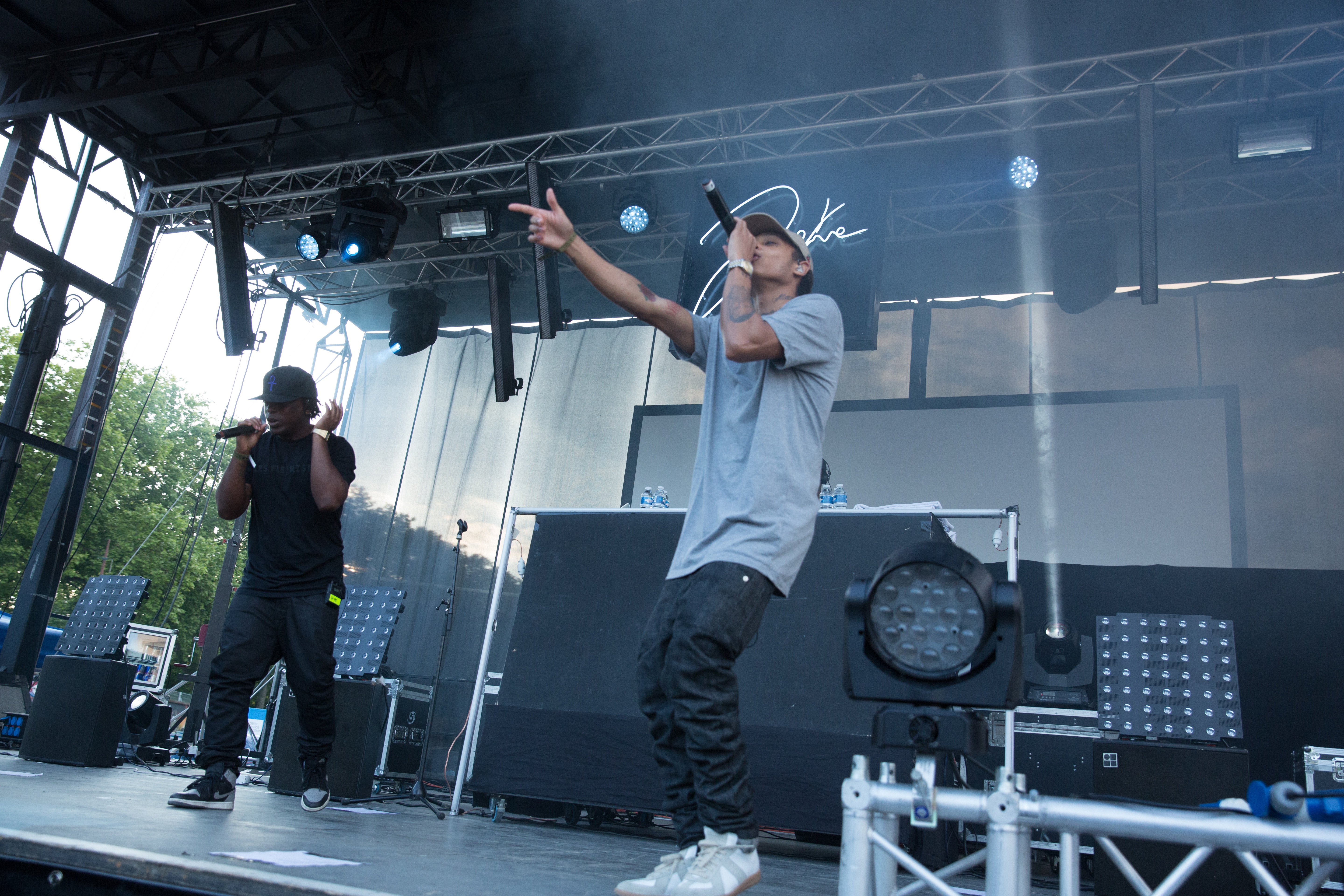 Joke at "le weekend des curiosités 2015", Ramonville, France